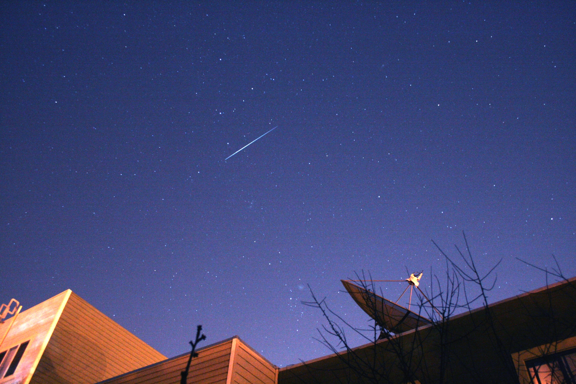 Iridium Flare and Comet 17P/Holmes slightly above the tree branch.